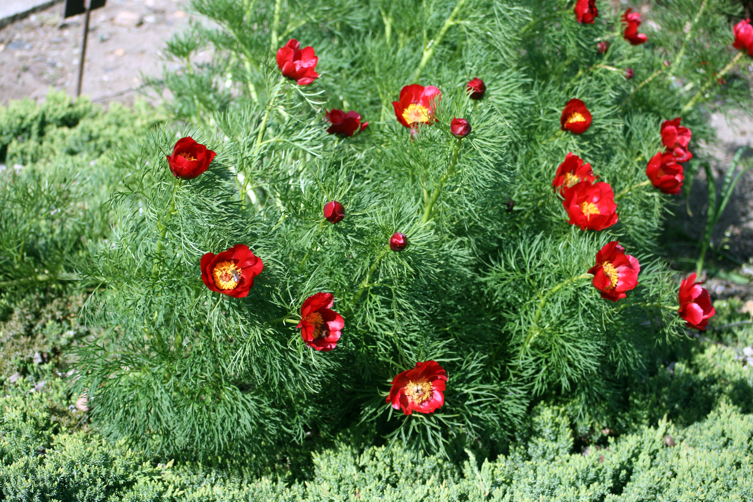 Flower Paeonia tenuifolia in Prague botanic garden, Czech Republic